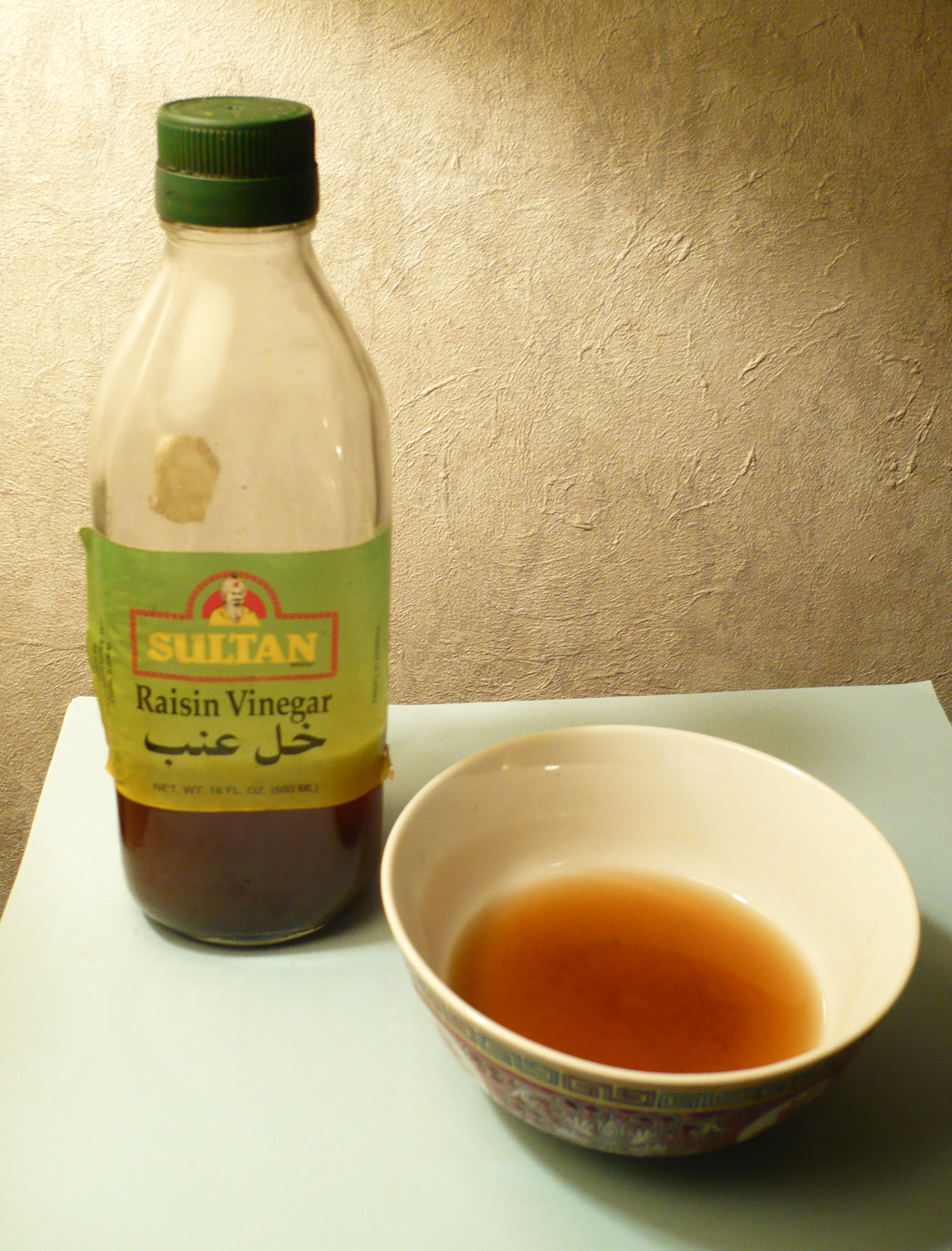 A glass bottle of commercially produced raisin vinegar (Arabic: خل عنب), with a small bowl of the same. Photo taken in Kent, Ohio with a Panasonic Lumix digital camera (model DMC-LS75). Raisin vinegar purchased from a Cleveland, Ohio-area Lebanese grocery store. Raisin vinegar produced in Turkey.